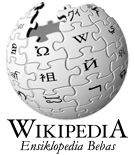 Logo of the Bahasa Melayu Wikipedia